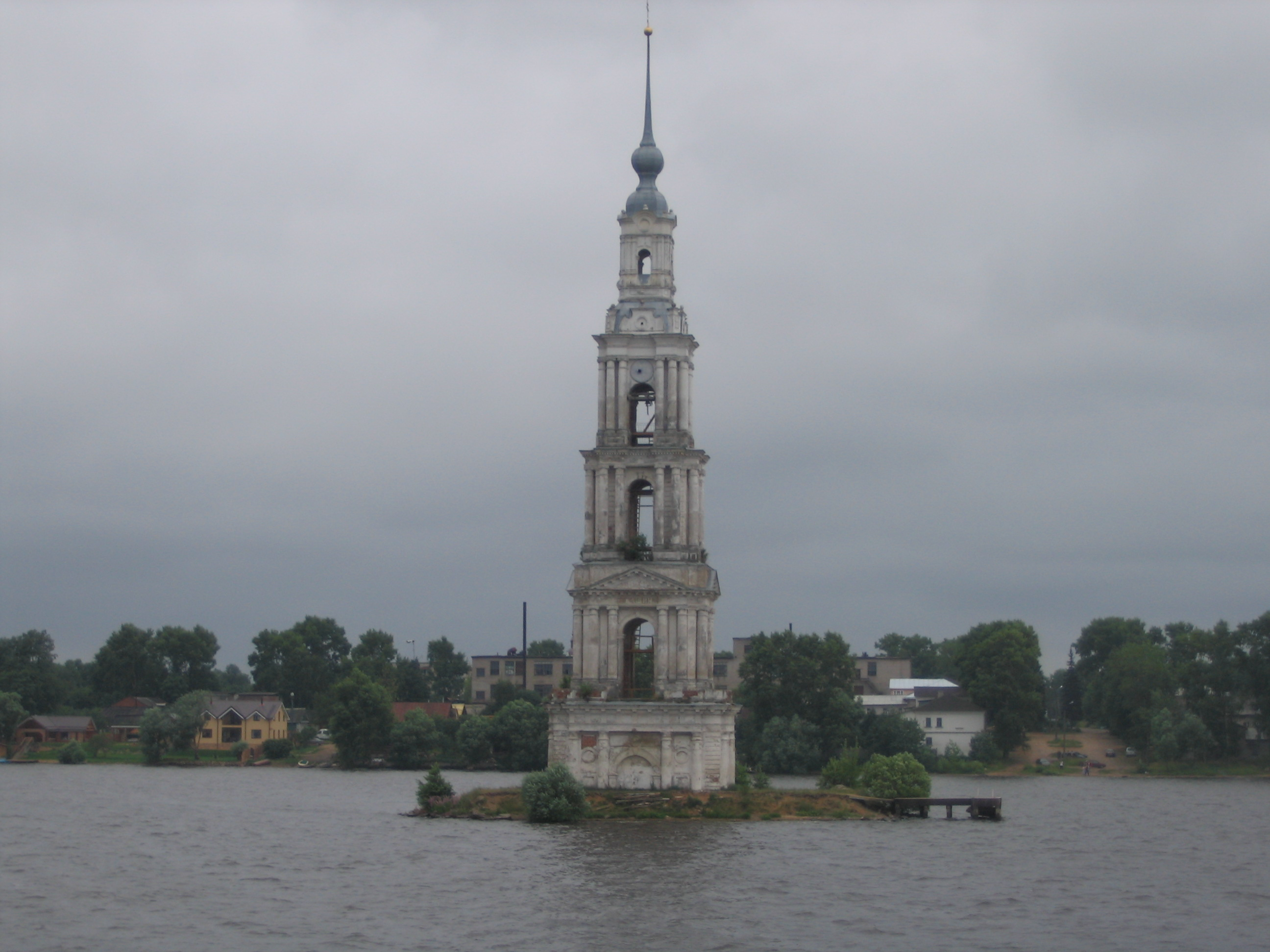 Bell tower in Kalyazin on Volga river